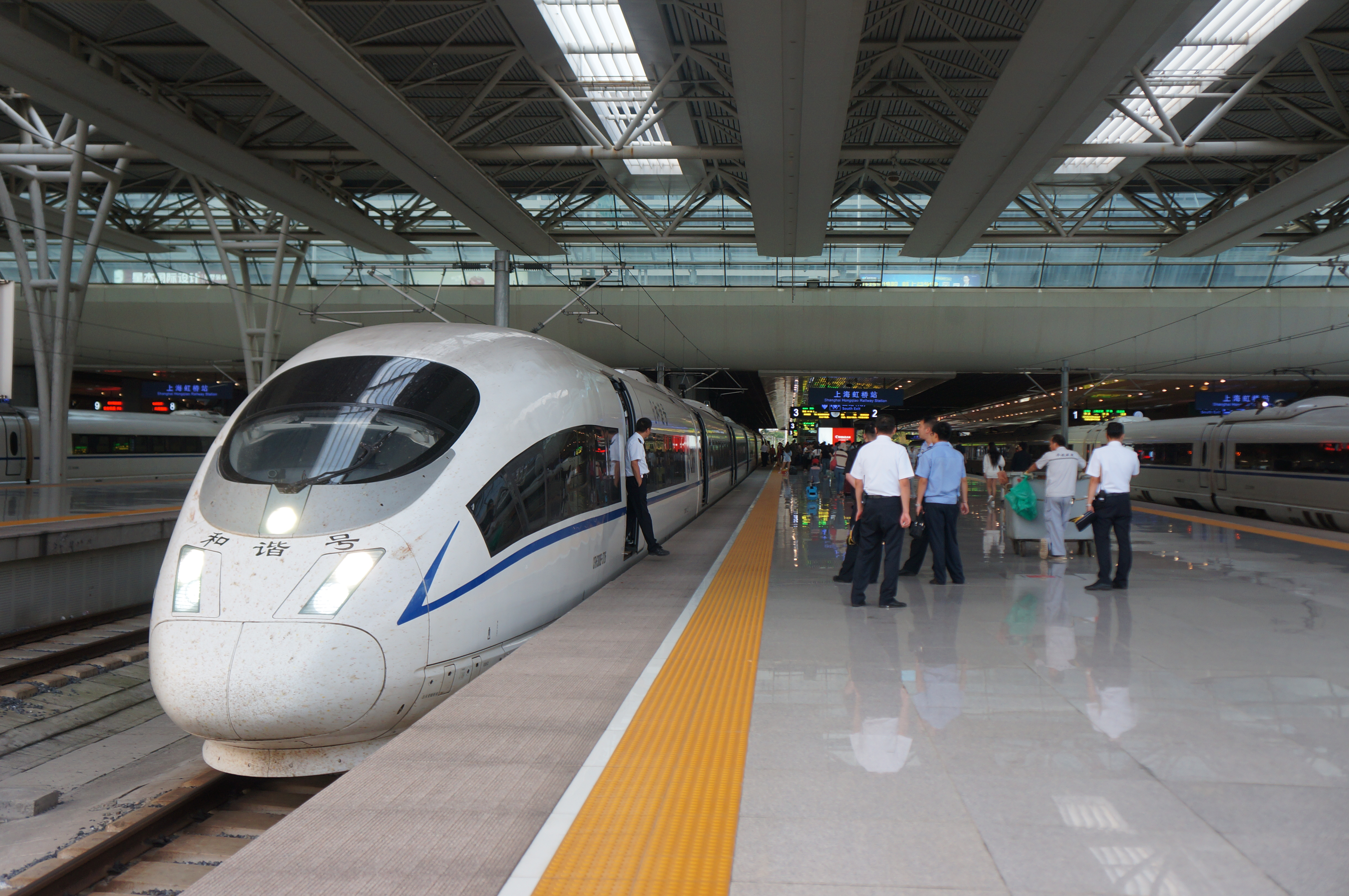 201609 G7323 (Shanghai Hongqiao to Wenzhounan via JWHR) waits for departure at Shanghai Hongqiao Station after executing G1919 from Xi'anbei.